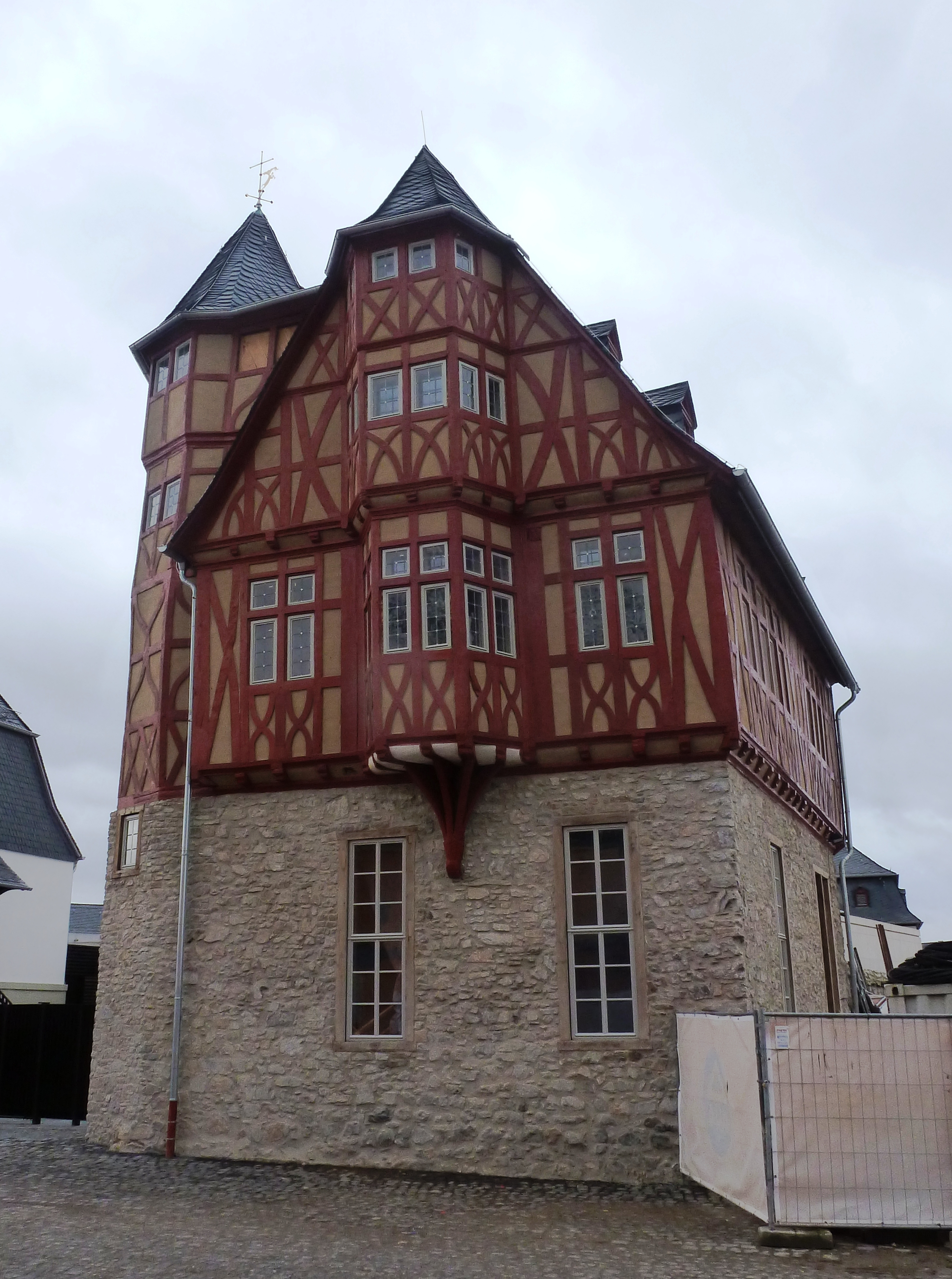 Vikarie near Limburg Cathedral, Domplatz 7, Limburg an der Lahn, Hesse, Germany